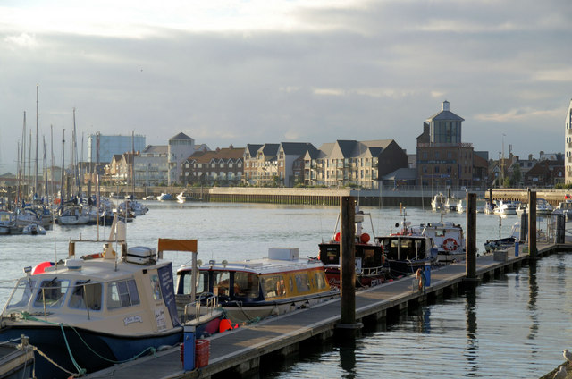 Floating Harbour, Littlehampton. A similar view to 254443 ten years on, after redevelopment of much of the riverside in the background.